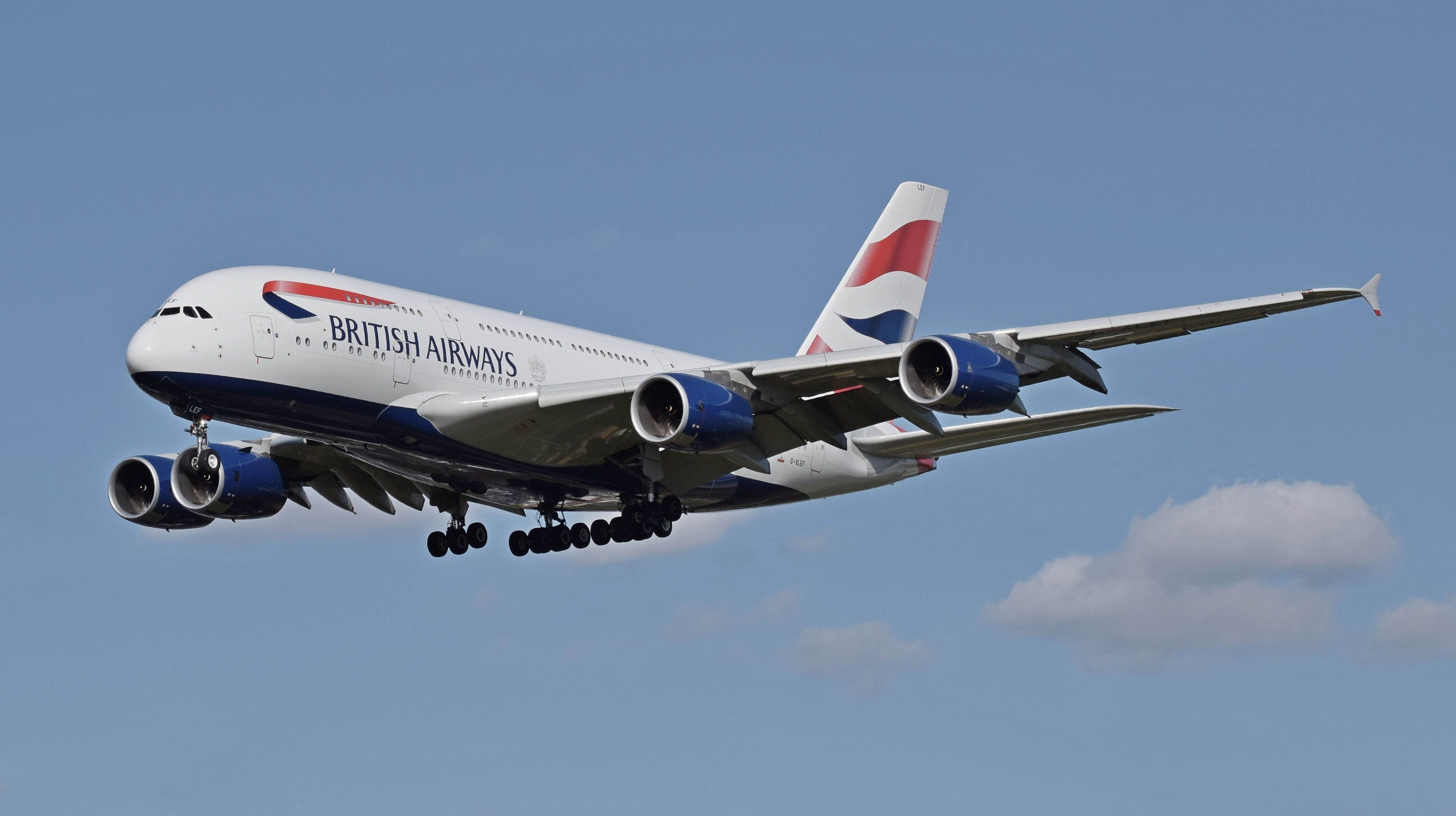 British Airways Airbus A380 (G-XLEF) arrives at London Heathrow Airport, England.